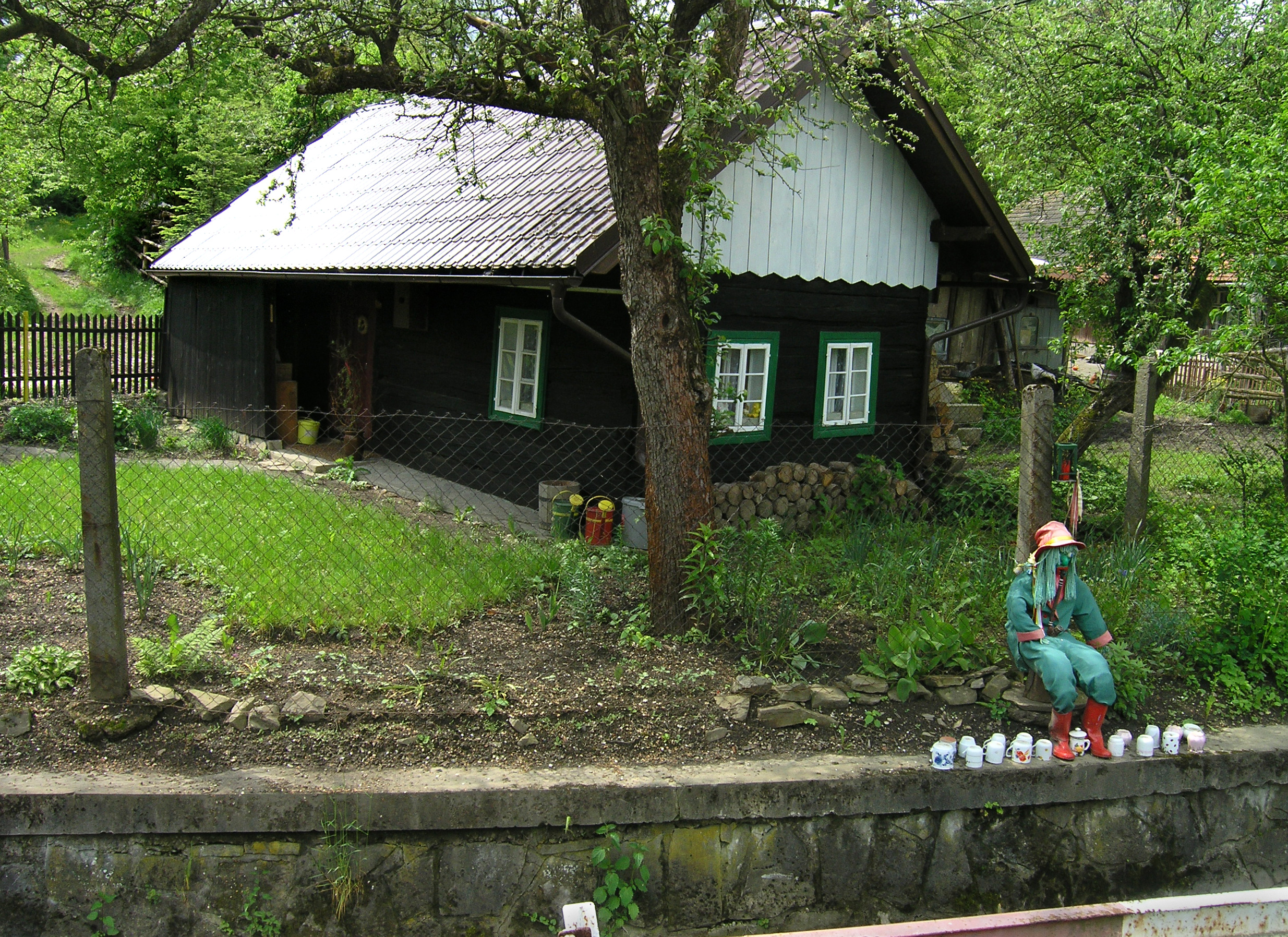 Old house in Prlov, Czech Republic